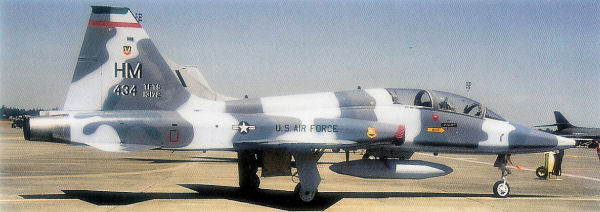 T-38A of the 479th Tactical Training Wing, Holloman Air Force Base New Mexico.